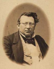 Christian Vilhelm Rimestad (1816-1879), Danish editor and politician, MP